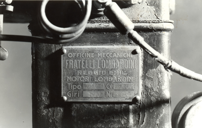 L3, the first engine model produced by "Officine Meccaniche Fratelli Lombardini", detail of identification plate (1933).